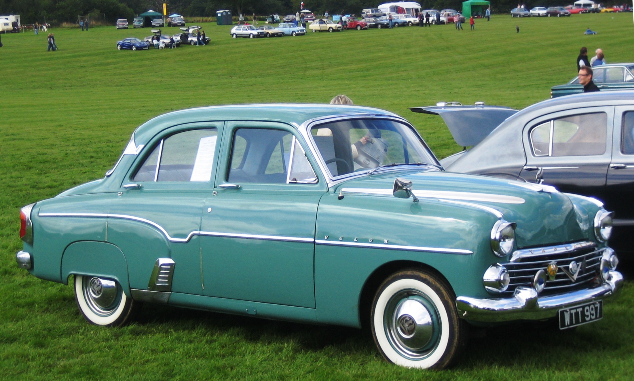 Vauxhall Velox series EIP (1951-1952) first of the ponton / three box bodied models, prefacelift grill reg 16/5/1957